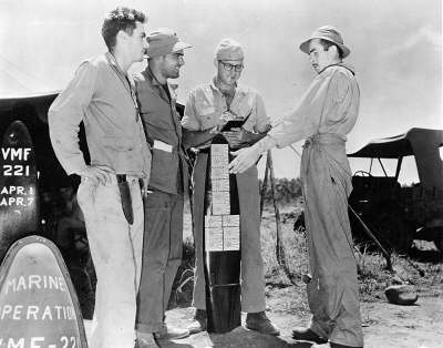 James E. Swett, USMC; Caption: 1stLt James E. Swett, Marine Corps pilot, with other pilots of his VMF-221 squadron (left to right: 1stLt W.E. Welker, Jr., 1stLt W.H. Hallmeyer, Lt (jg) McAshan, USN, of Fighter Command Intelligence.)